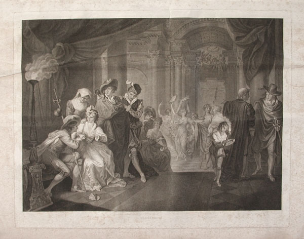 Romeo and Juliet act 1 scene 5, painted by William Miller, engraved by G. S. and J. G. Facius